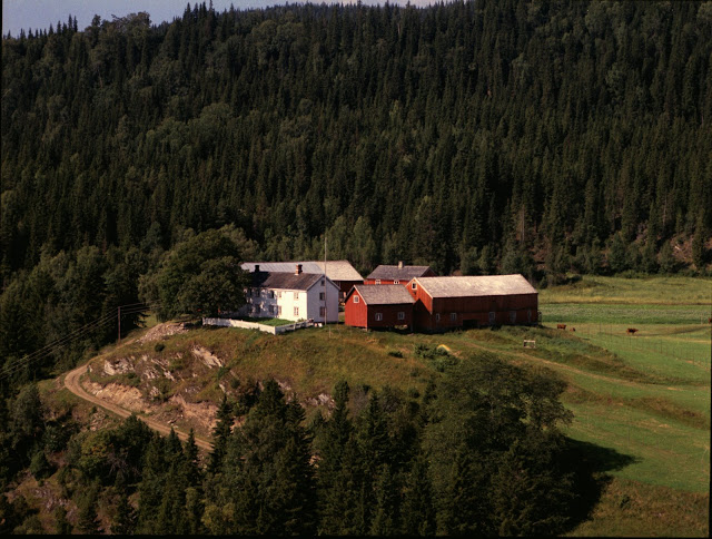 The farm Duklet in Mosvik, Inderøy, Norway. Photo from Mosvik municipality archives in cooperation with Mosvik hsitorielag.